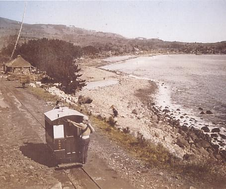 Abolished railway in Japan, Zusou Jinsha-tetsudo (handcar railway).